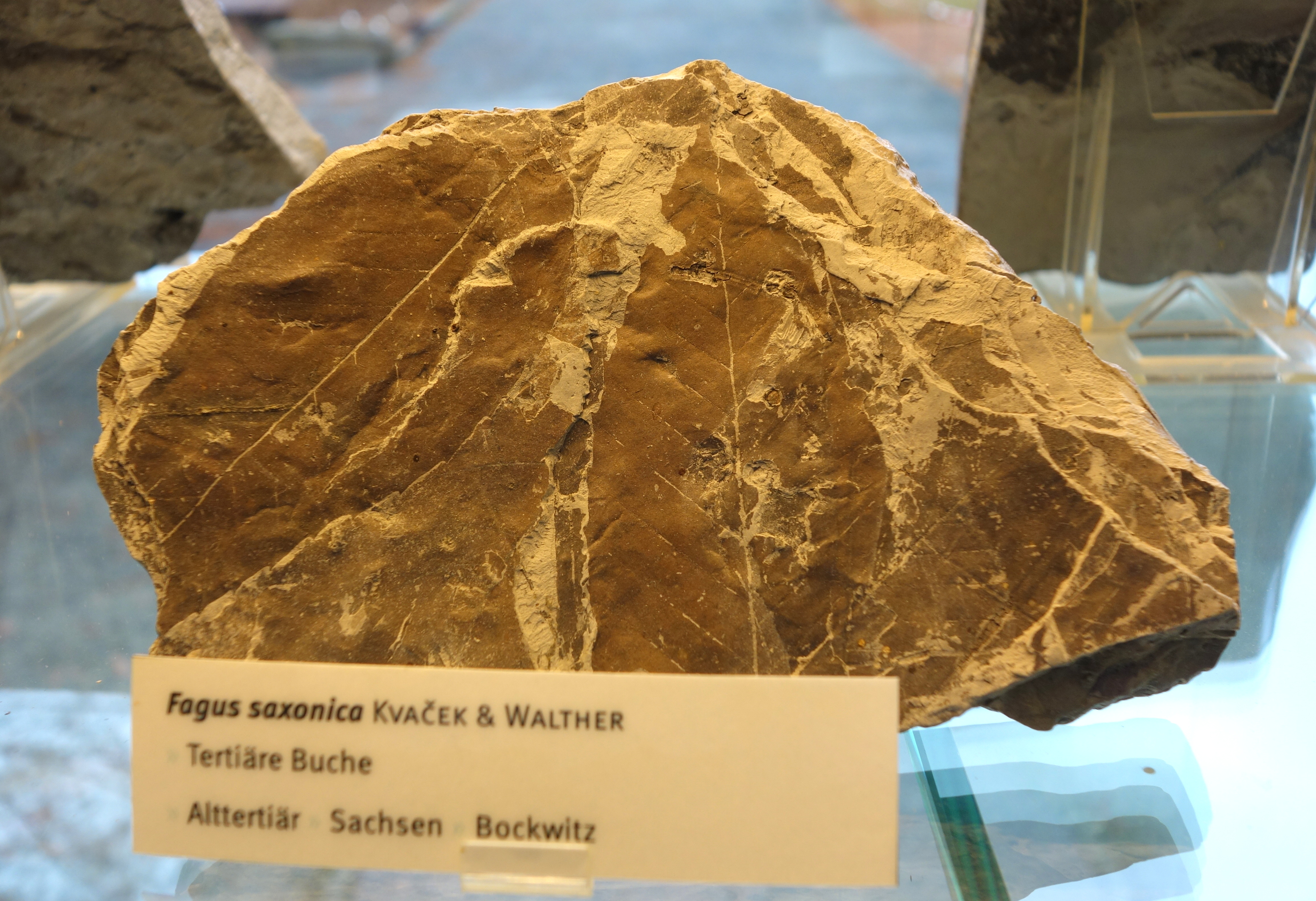 Fossil specimen in the Botanischer Garten, Dresden, Germany. Photography was permitted in the botanical garden without restriction.